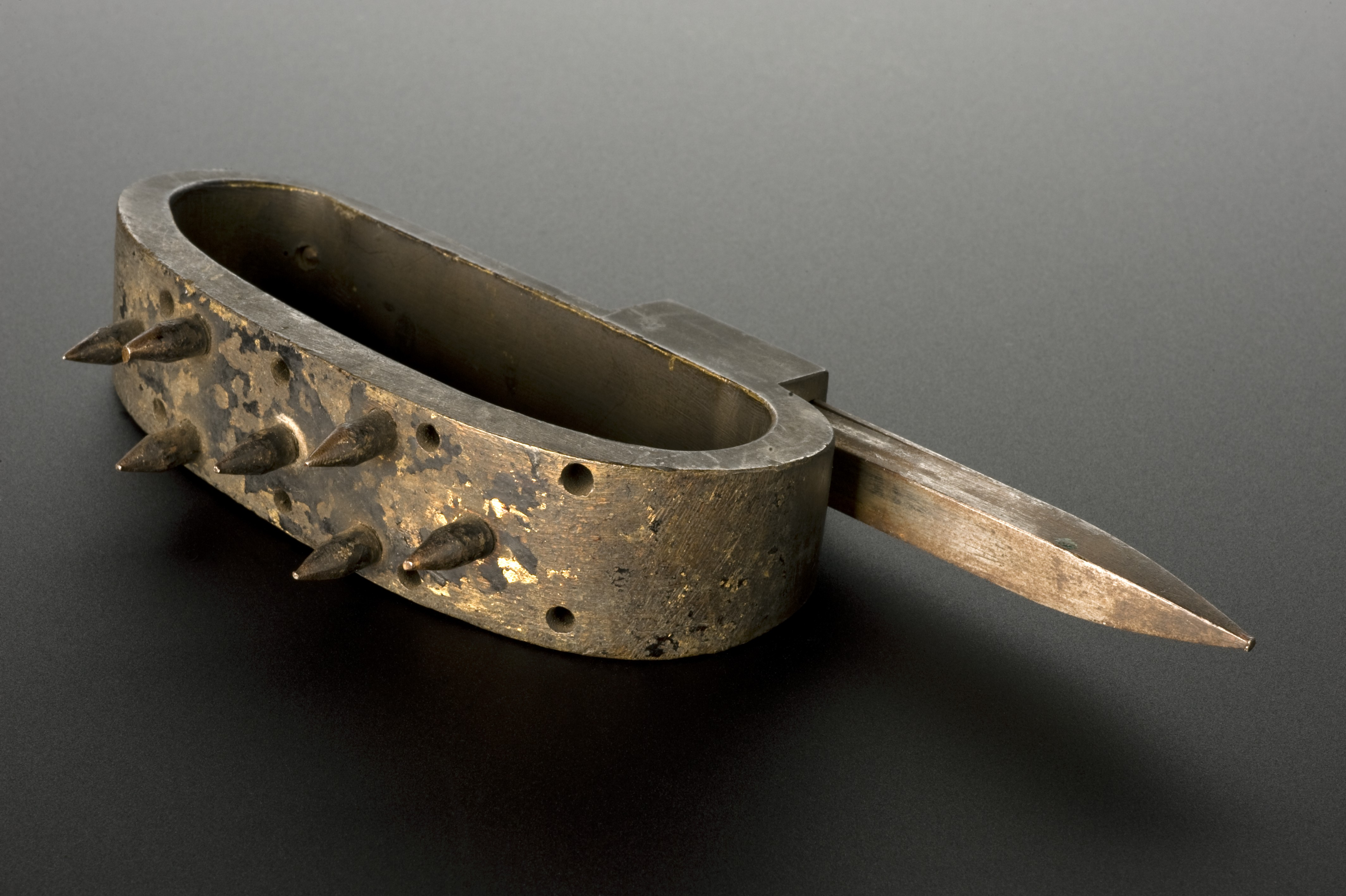 Soldiers during the First World War were issued with weapons and guns but many took their own unofficial weapons as well. Worn on the knuckles during man-to-man combat and perhaps carried during night time trench raids, the spiked metal could potentially add severe injuries to the punch being thrown. The retractable blade measures 60 mm. maker: Unknown maker Place made: England, United Kingdom Wellcome Images Keywords: knuckle duster